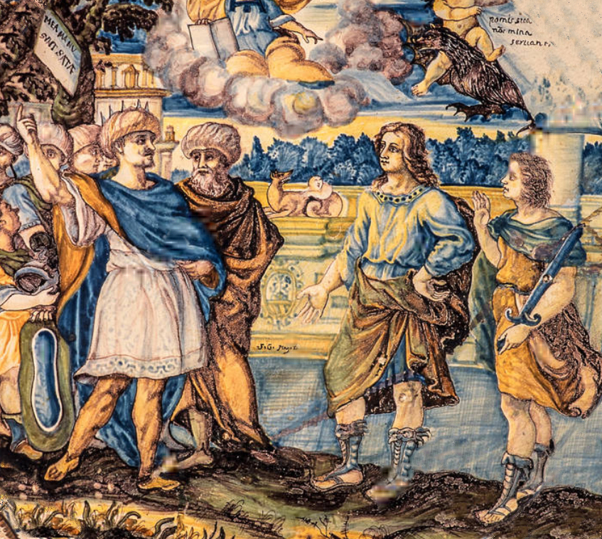 Meeting between Cyrus the Younger and Lysander, by Francesco Antonio Grue (1618-1673), maiolica with a dusting technique, Castelli manufacture, Abruzzo. Italy, 17th century